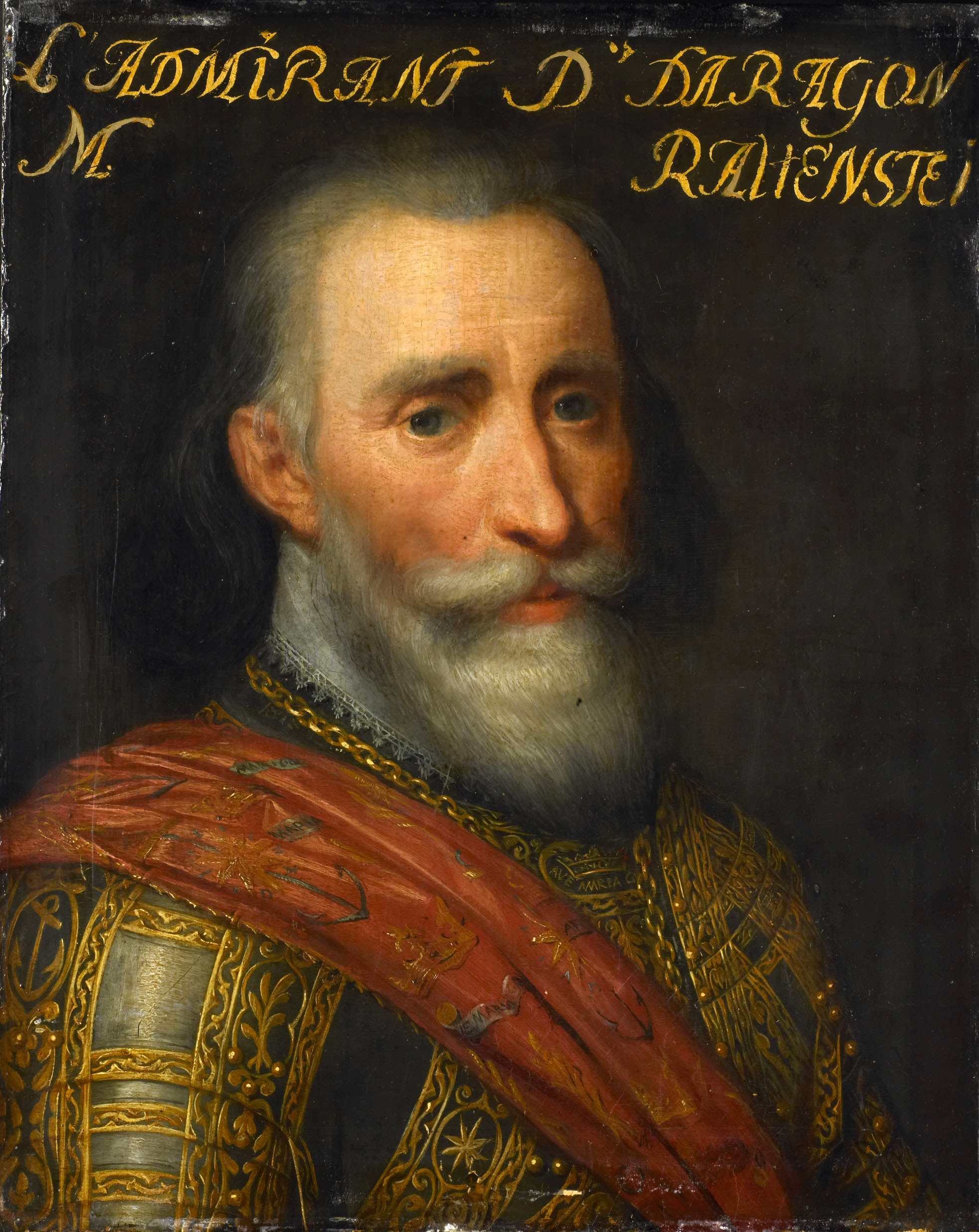 Portrait of Francisco Hurtado de Mendoza (1546-1623). Part of the Leeuwarden series, a series of portraits of military officials from the Eighty Years' War as well as members of the House of Orange-Nassau, first documented in 1633 in the Stadhouderlijk Hof (Stadholder's Court) in Leeuwarden (see Object history).